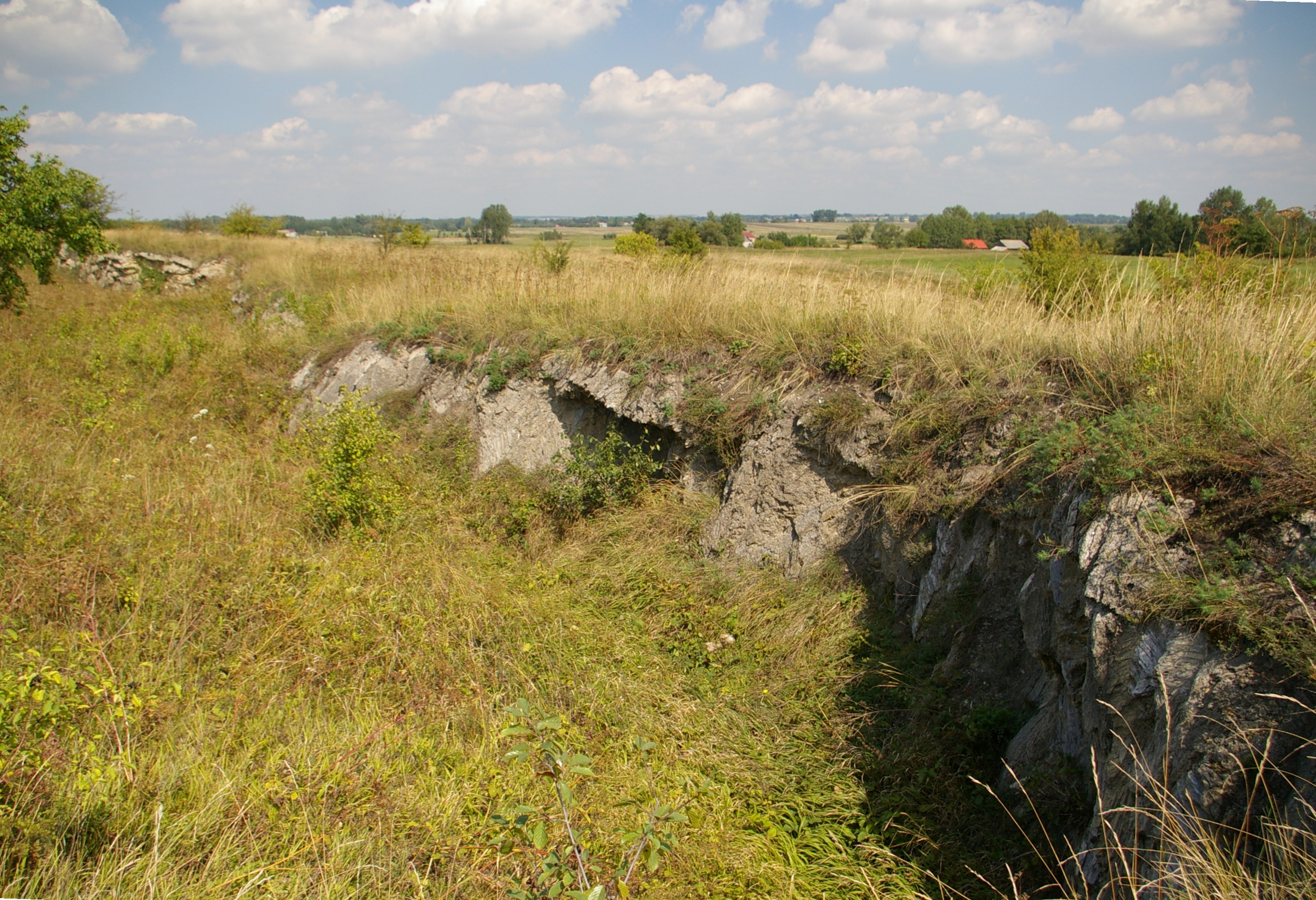 Nature reserve Góry Wschodnie in Poland, the outcrop of gypsum